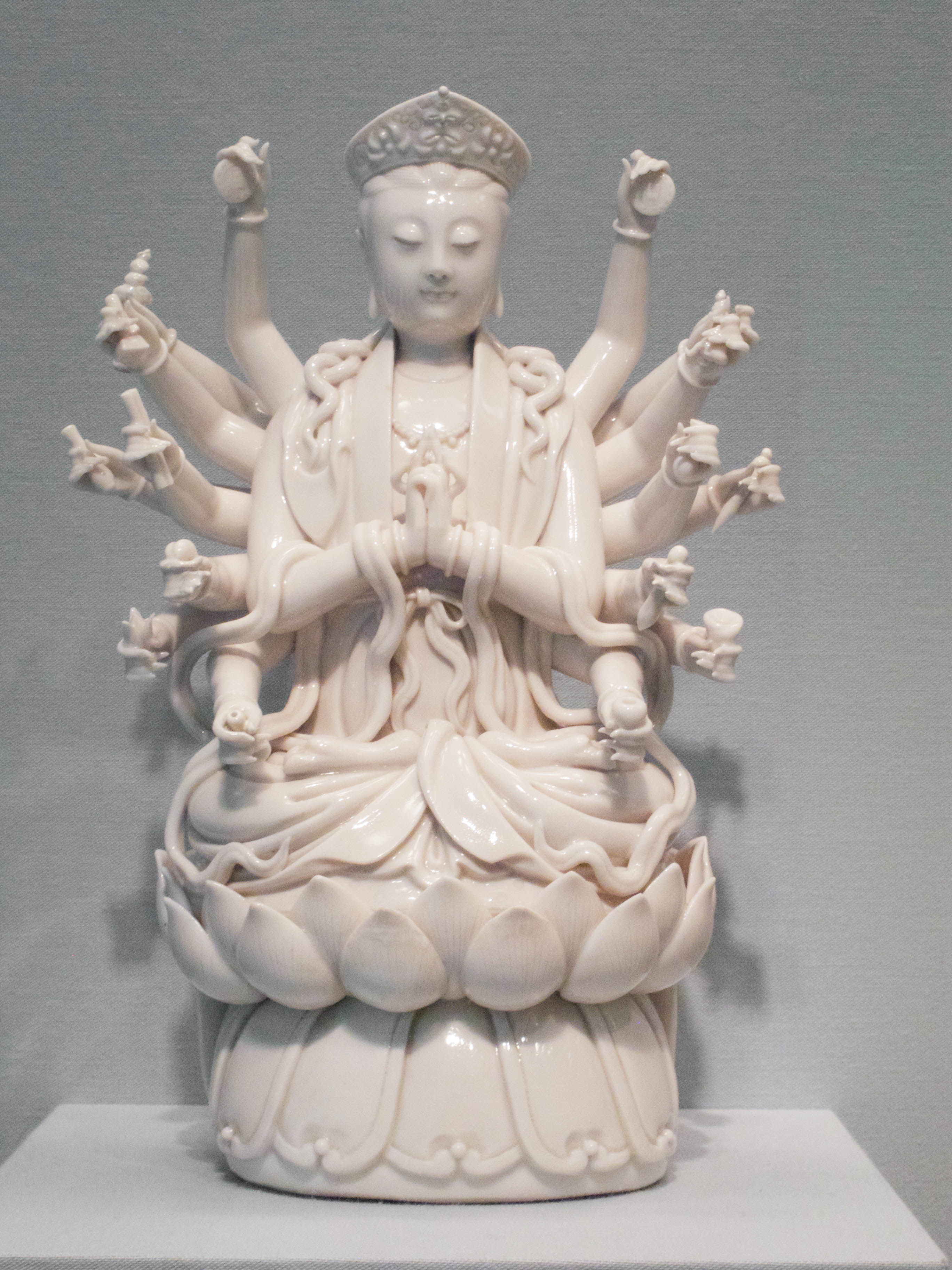 The Taoist deity Doumu, approx. 1700-1800. China; Fujian province. Qing dynasty (1644-1911). Dehua ware, mold-impressed porcelain with sculpted decoration. The Avery Brundage Collection, B60P1362. Asian Art Museum, San Francisco. This goddess, as her name implies, is the mother of the seven stars of the Northern Big Dipper, the constellation also known as Ursa Major. It is unclear when worship of the Dipper Mother began, but she did not gain prominence until the 1400s, when she appeared in the Taoist canon. This porcelain sculpture, combining Buddhist and Taoist elements, shows the Dipper Mother, with a third eye in her forehead, sitting on a lotus throne and wearing a crown. In her eighteen arms she holds various symbolic implements, among them sacred weapons and vessels. The finely sculpted hands and face are distinctive features of Dehua porcelain.